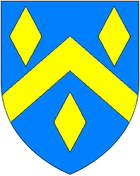 Arms of Hyde, Earls of Clarendon: Azure, a chevron between three lozenges or